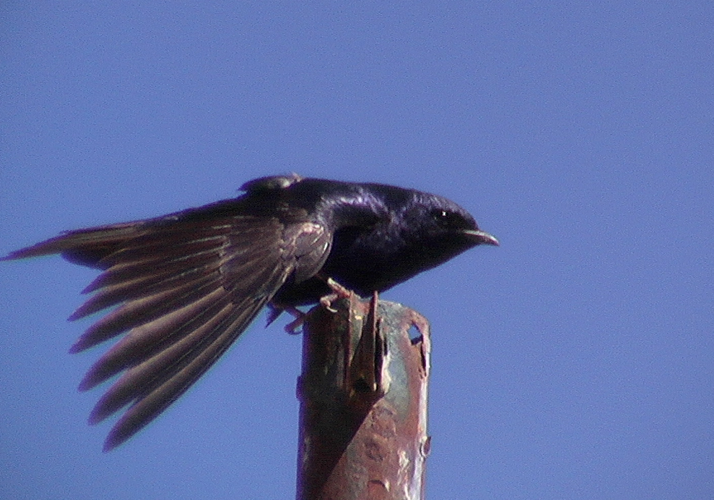 Southern Martin (Progne elegans). A male at Punta Tombo, Argentina. Photographed on 23 December 2003